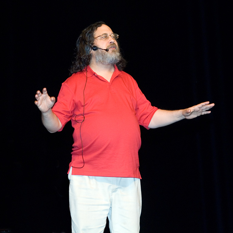 Richard Stallman speaking in Oslo. 2009-02-23.